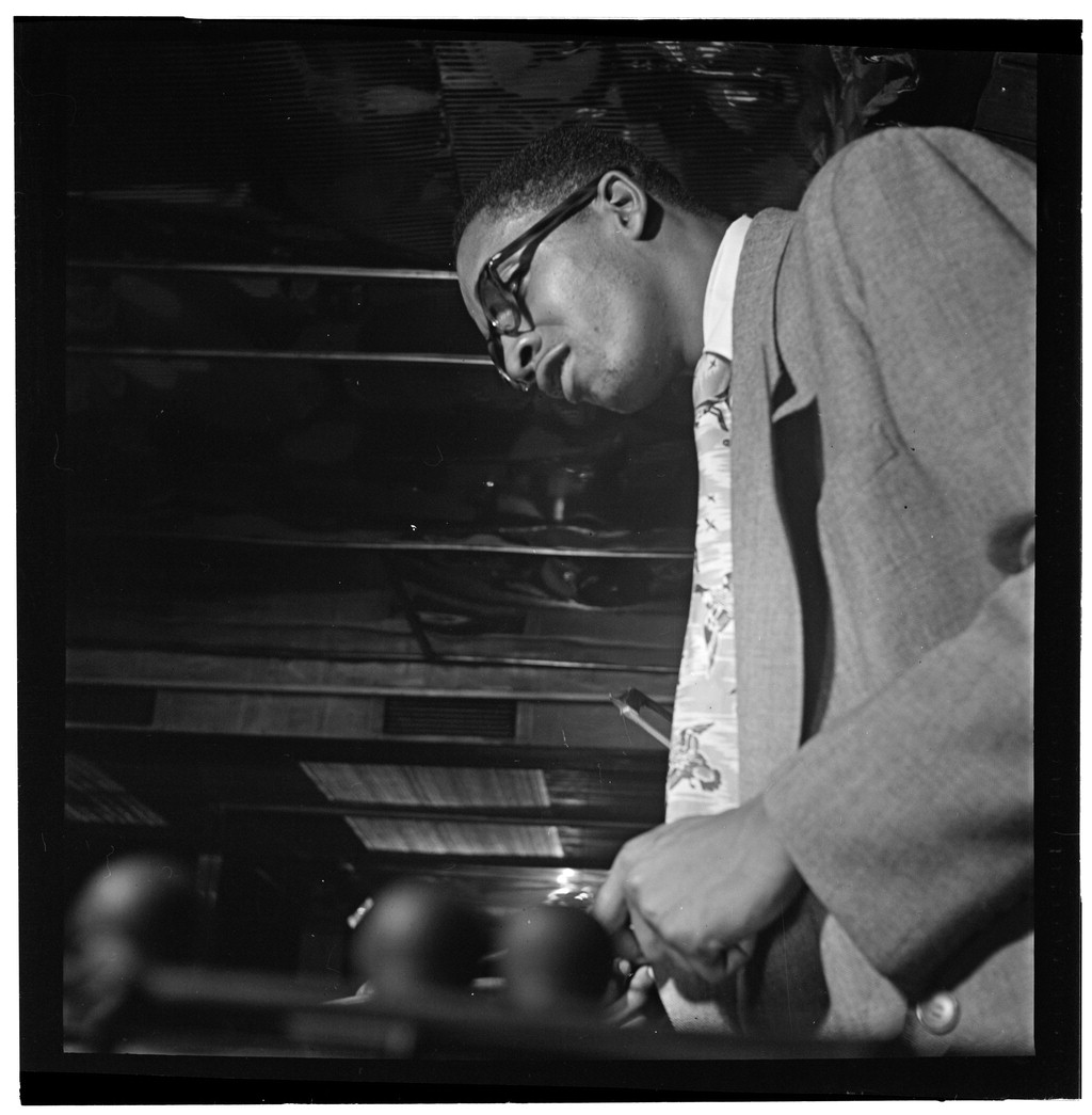 Milt Jackson, New York, between 1946 and 1948